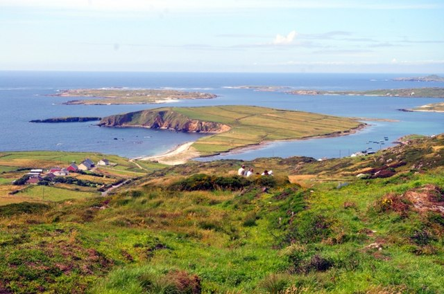 Ardmore / An Aird Mhór Peninsula in Clifden Bay/Cuan an Chlocháin. Beyond are the islands of Turbot/Tairbeart and Inishturk/Inis Toirc